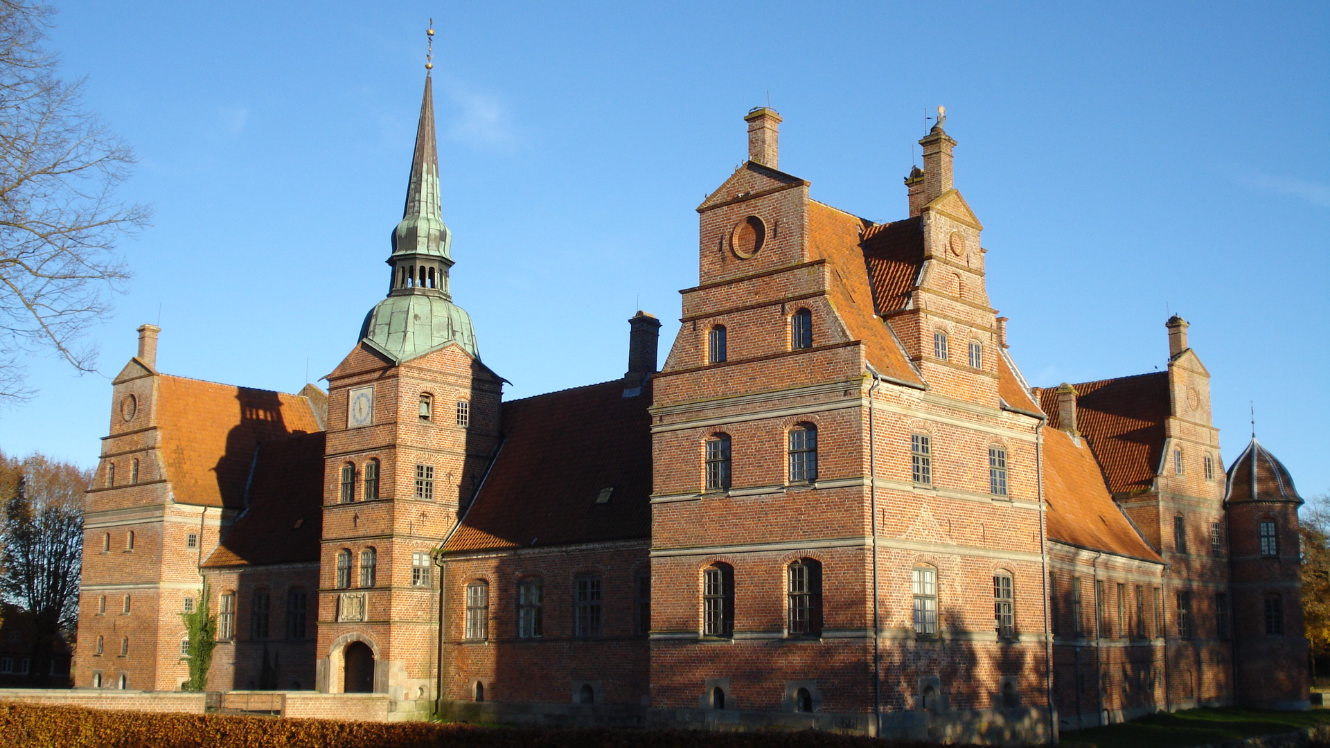 Rosenholm Castle, Jutland, Denmark, seen from SW.